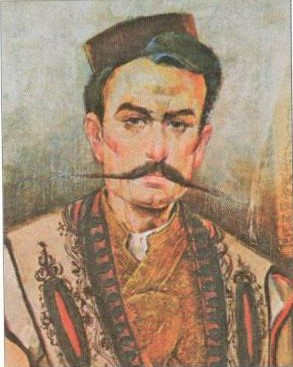 A portrait of Gjurchin Kokaleski, painting in MANU